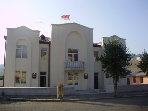 District court in Askeran, Republic of Mountainous Karabakh.